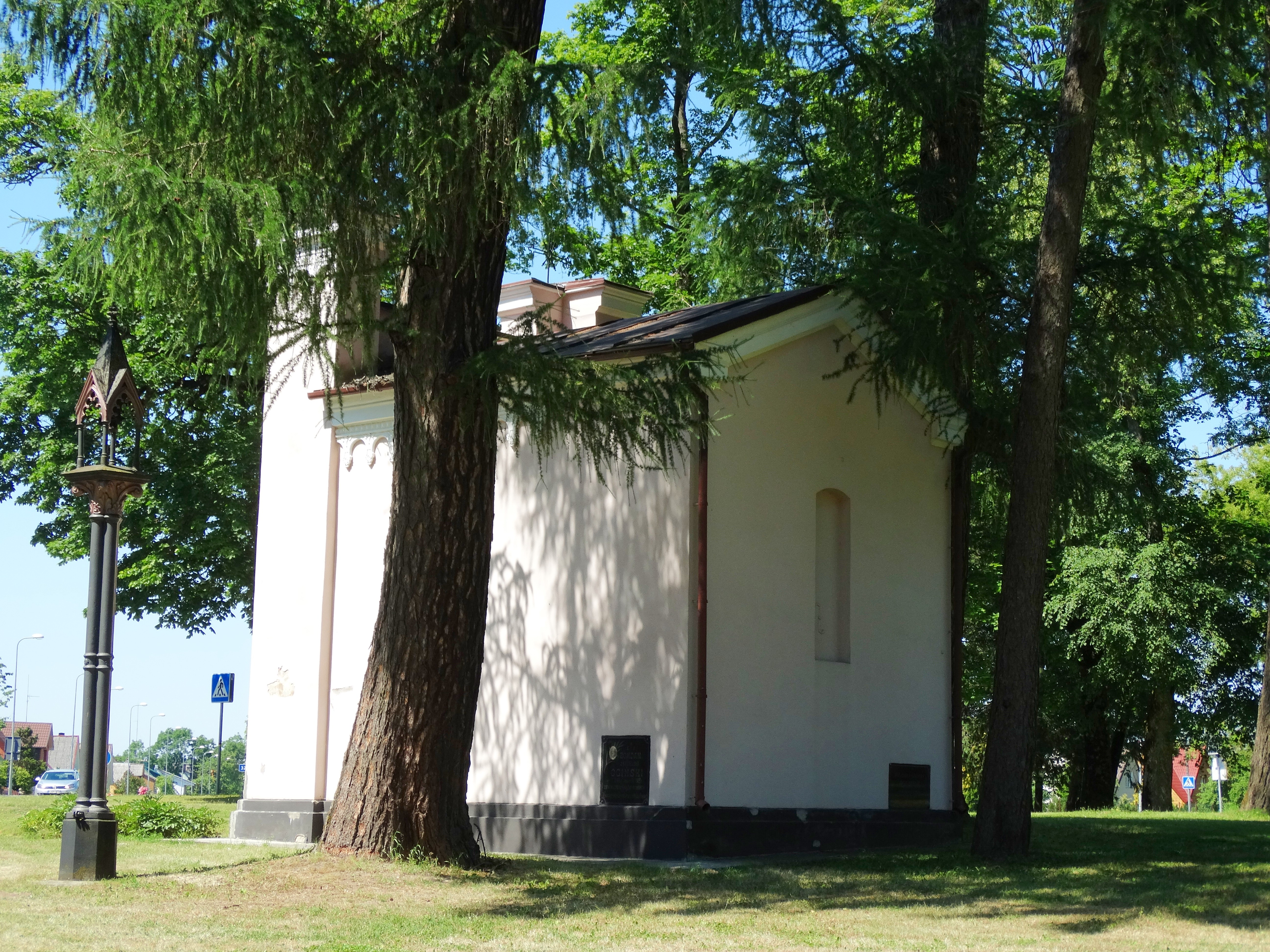 Ogiński family chapel in Rietavas, Lithuania